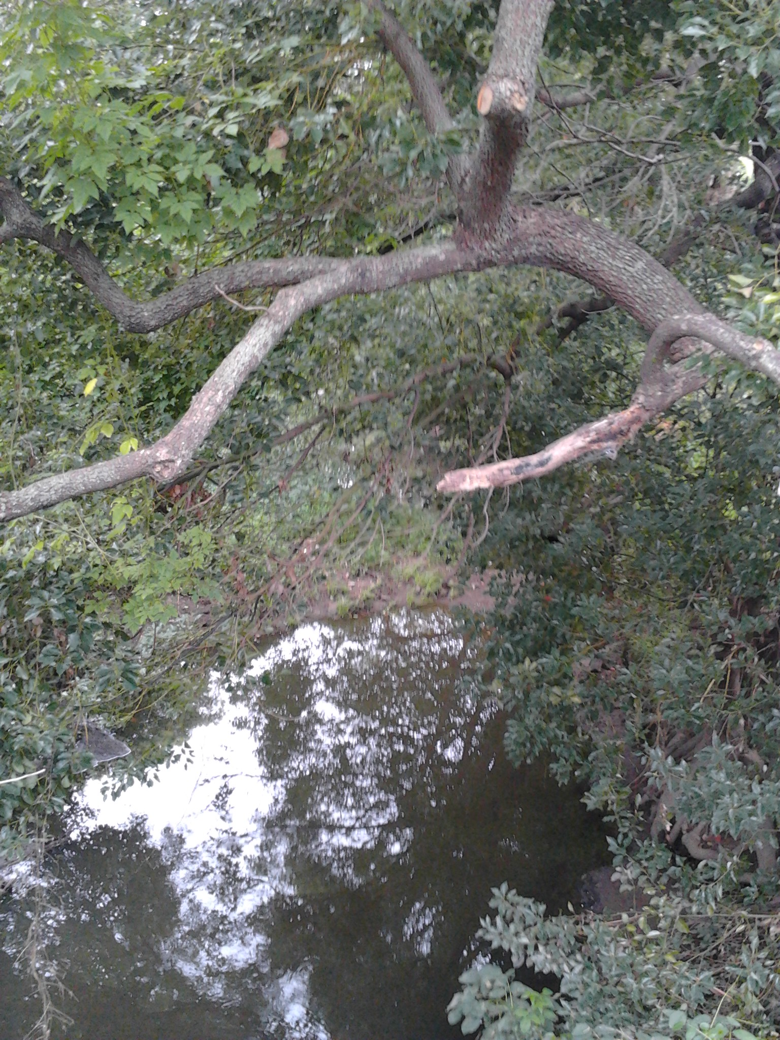 This shows Vineyard Creek, Rydalmere, looking south from Victoria Road, in Sydney, NSW, Australia.